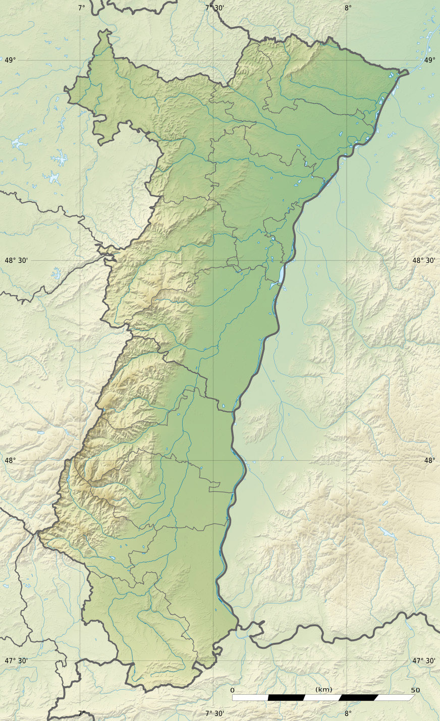 Blank physical map of the region of Alsace, France, for geo-location purpose.